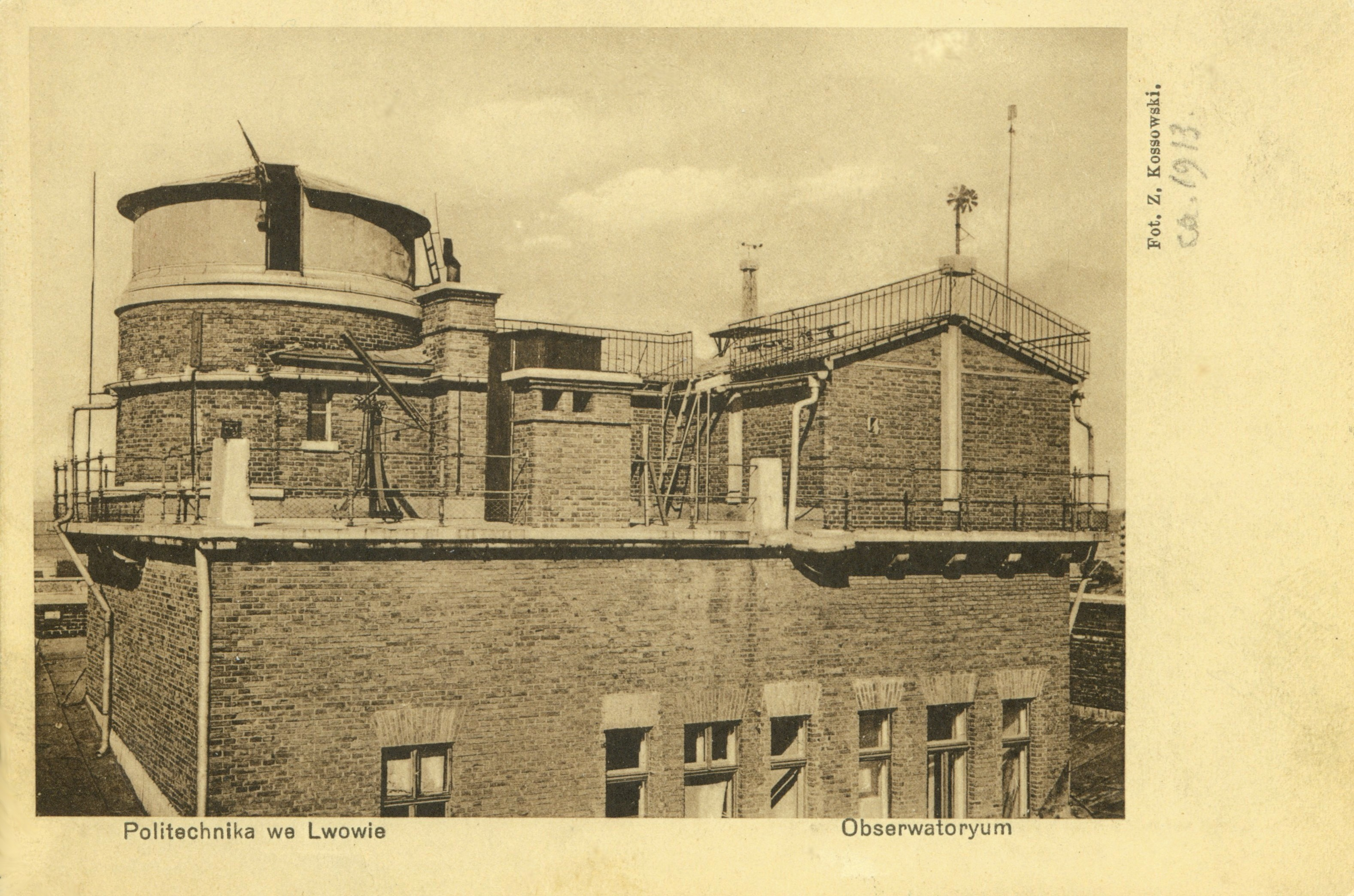 Imperial and Royal Observatory High Polytechnic School in Lvov